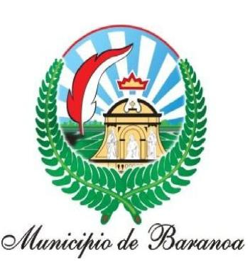 Baranoa's coast of arms